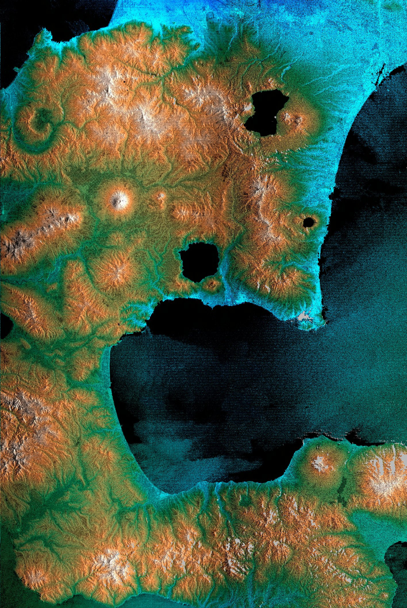 SRTM image of the southeast part of the island of Hokkaido, Japan